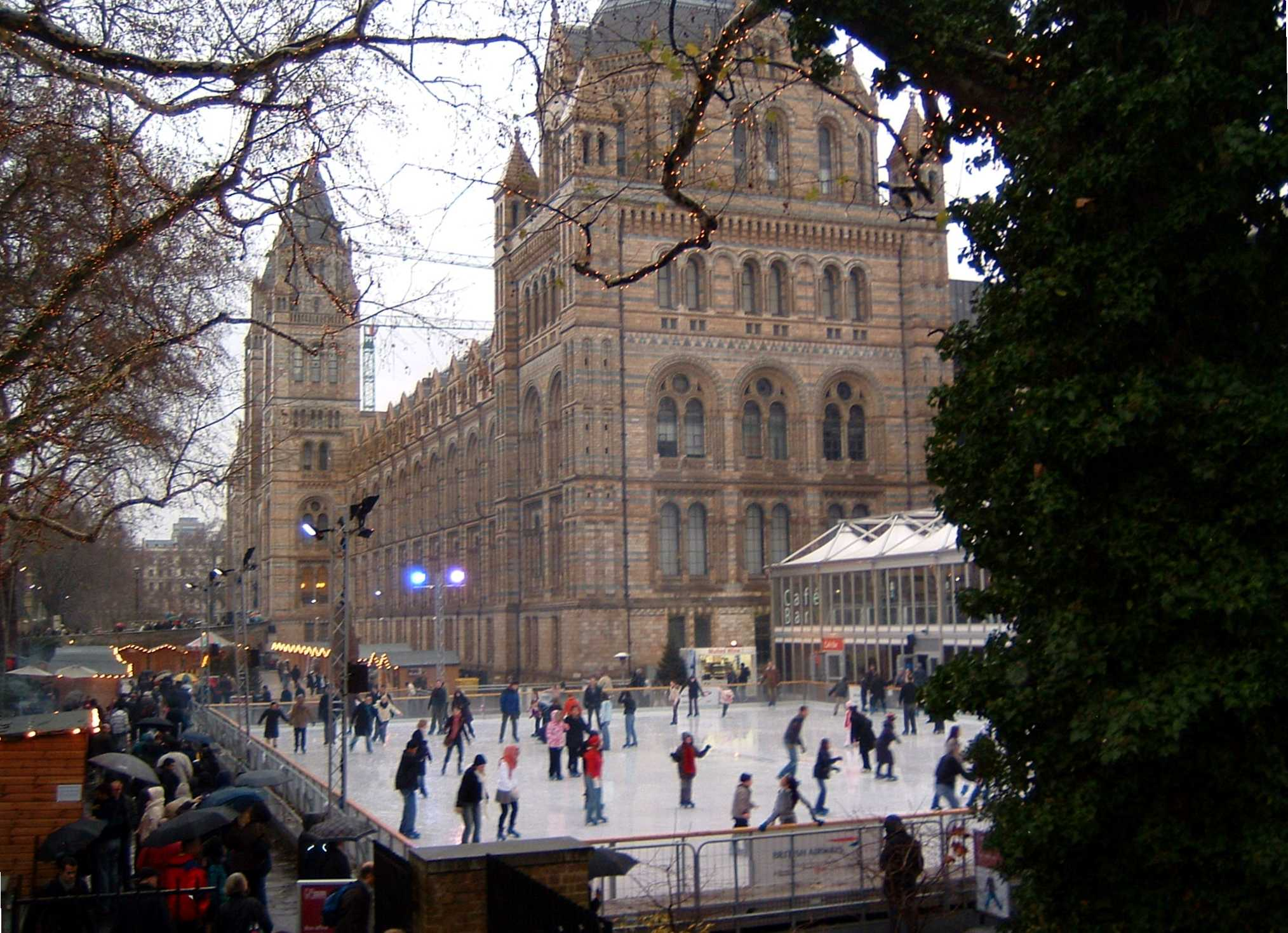 Natural History Museum with skating December 2006